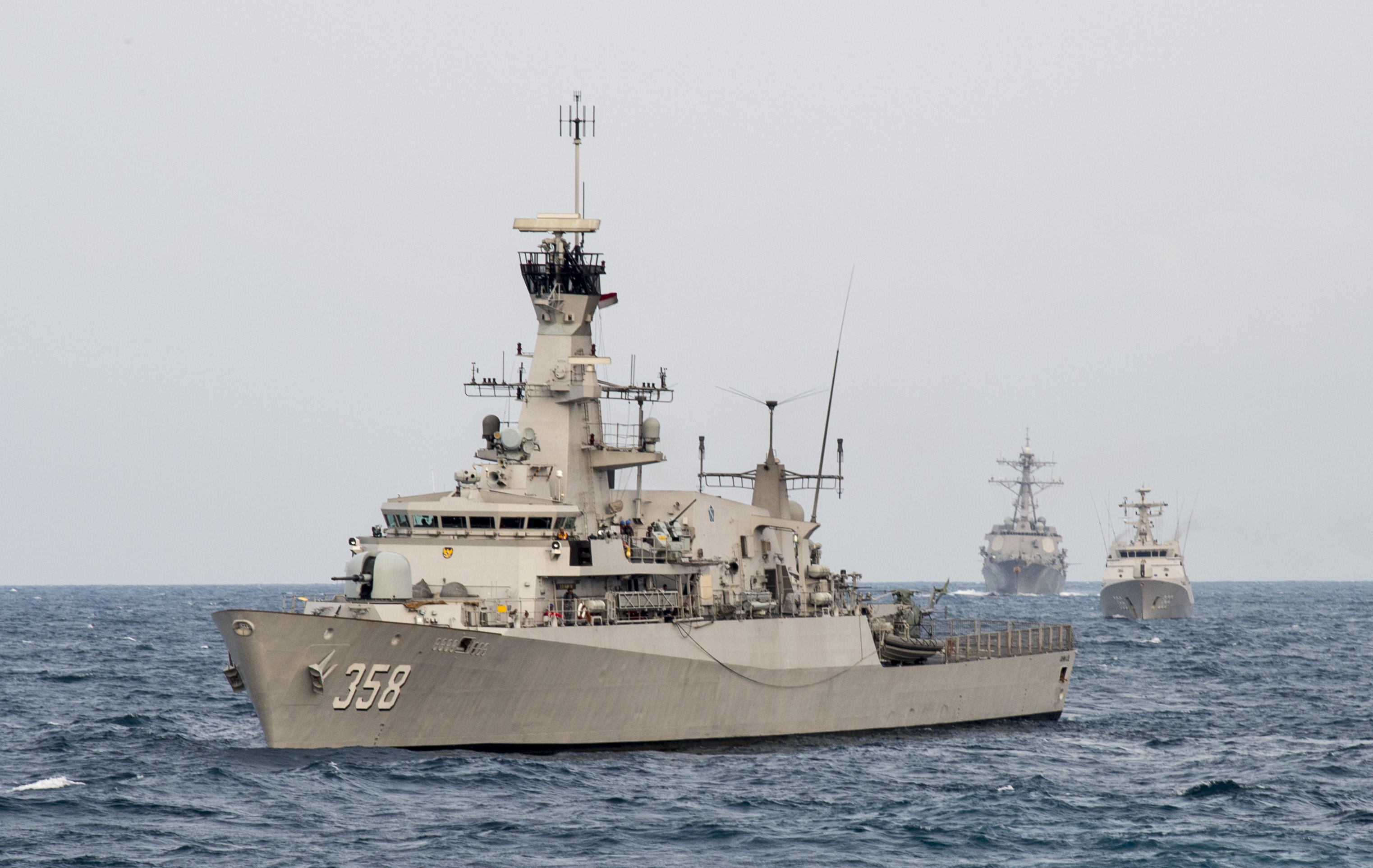 The Indonesian navy corvette KRI John Lie (358) lines up for a combined gunnery exercise behind the U.S. Navy littoral combat ship USS Fort Worth (LCS-3) during the underway phase of Cooperation Afloat Readiness and Training (CARAT) Indonesia 2015. CARAT is an annual, bilateral exercise series with the U.S. Navy, U.S. Marine Corps and the armed forces of nine partner nations.